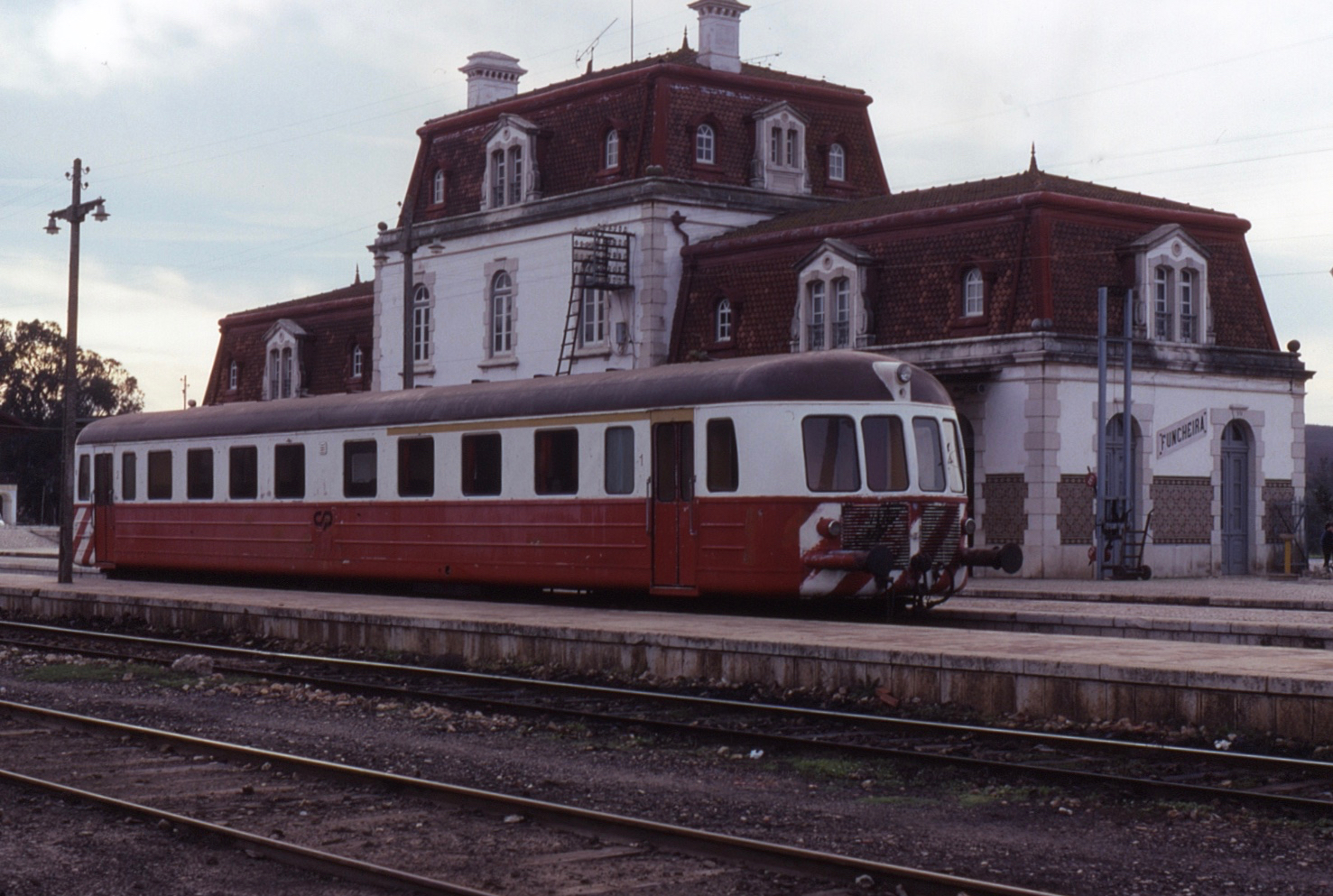 Single class 0100 rail car no. 0114 at Funcheira which will form train 4806, 16:15 Funcheira to Beja on 30 November 1990. These were originally built by N V Allan in Rotterdam from 1954. Extensively rebuilt in the 1990s and reclassified 0350, at the time of uploading two were still in traffic.